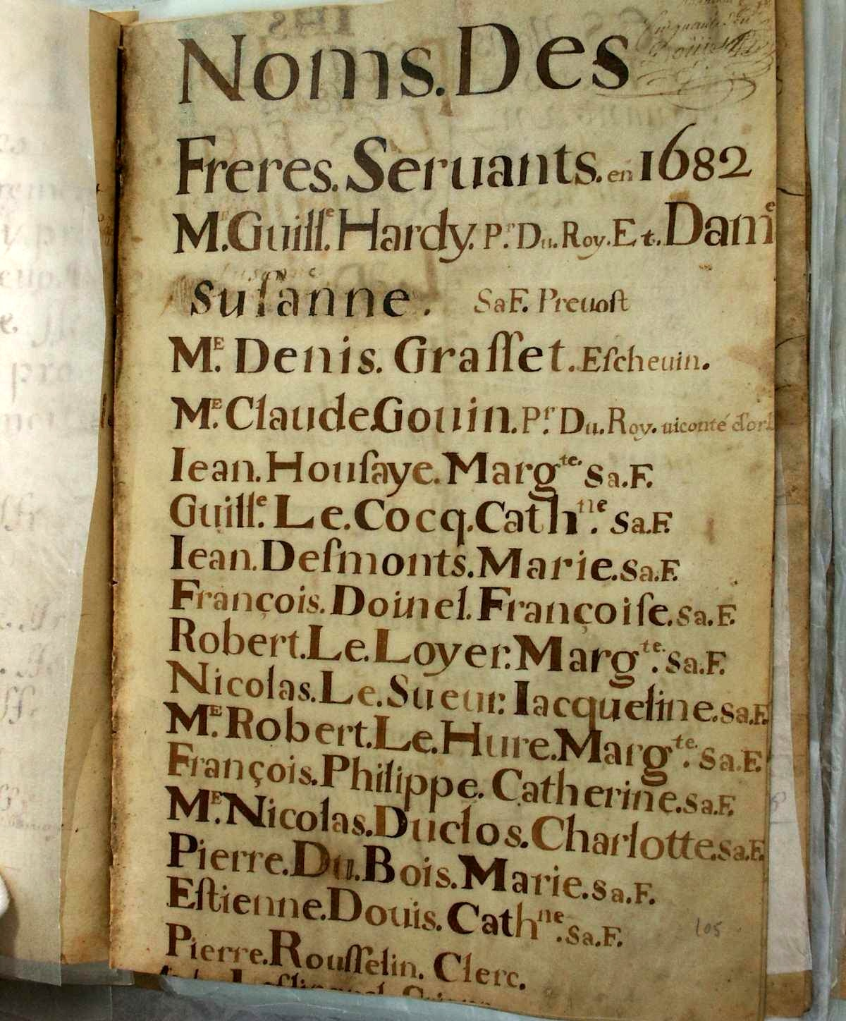 A page of the register of the "Brotherhood of charity" of the church Sainte-Croix in Bernay (Haute-Normandie, France).